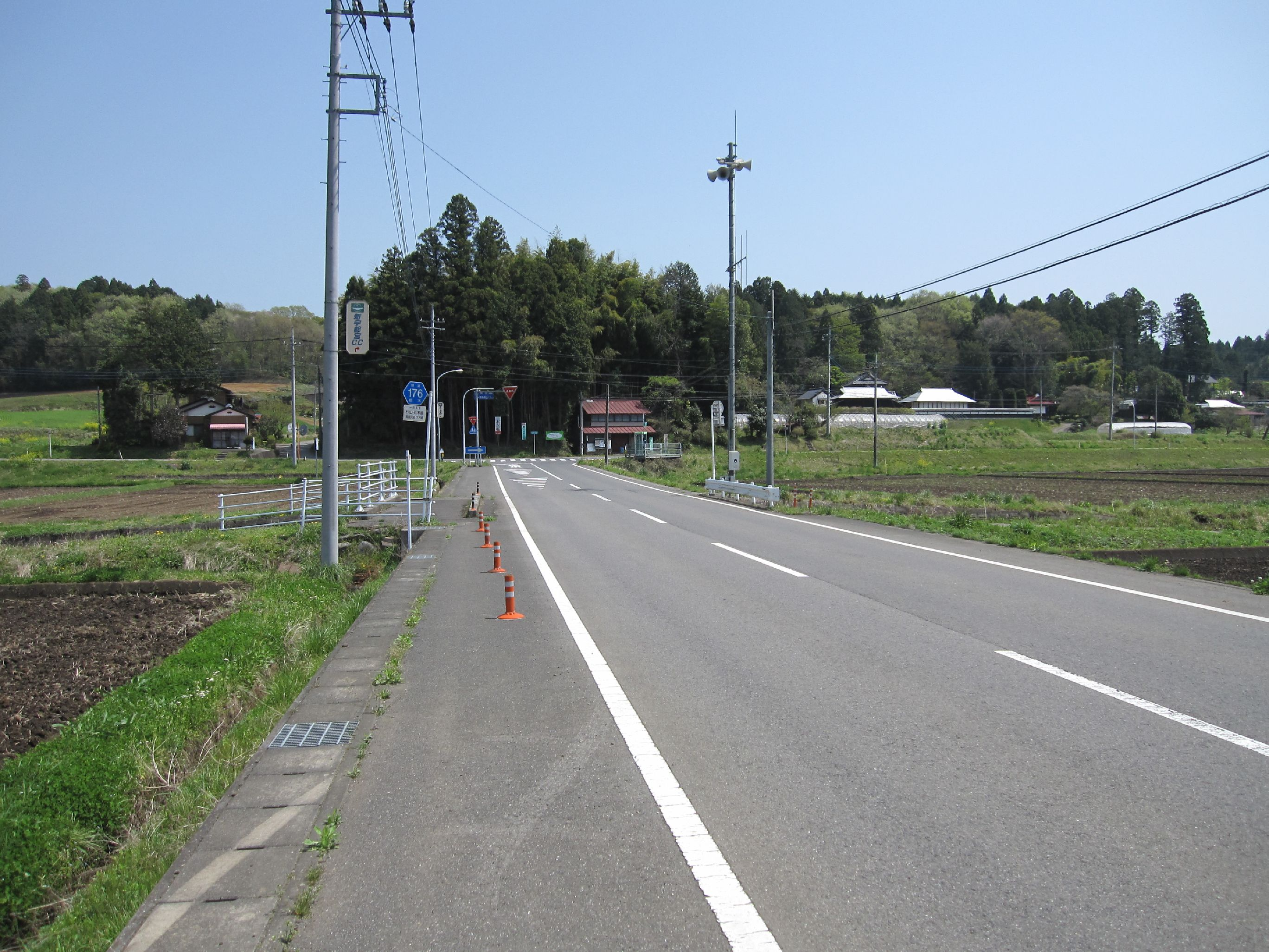 The Tochigi Prefectural Road Route 176 in Shimokashiwazaki, Takanezawa Town